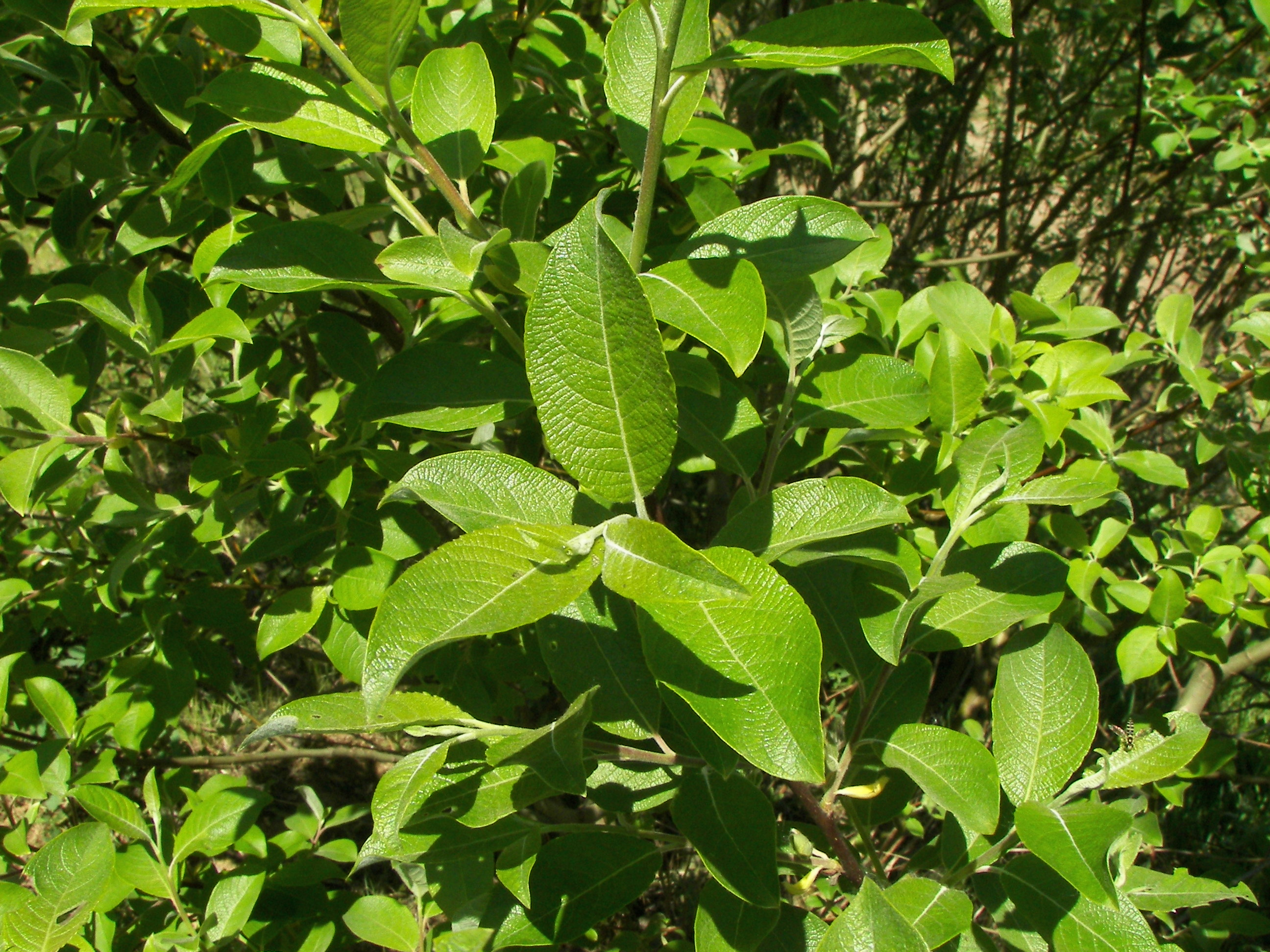 Goat Willow (Salix caprea), Leaf, Location: Lahntal-Goßfelden, Hesse, Germany